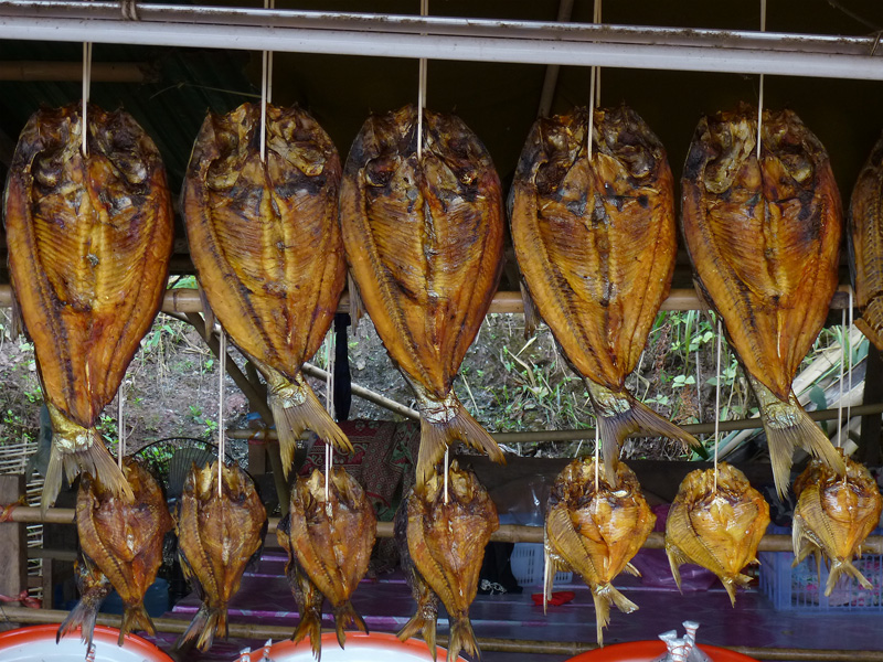 Tha Heua, Vientiane Province, Laos. Roadside fishmarket with catches from the Nam Ngum artificial lake.